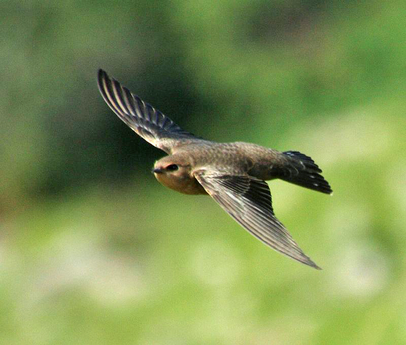 Rock Martin (Ptyonoprogne fuligula) at Hlokozi, KwaZulu-Natal.